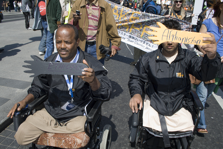 Original caption states, Demonstrators at the May 2008 Dublin Diplomatic Conference on Cluster Munitions that produced the Convention on Cluster Munitions.